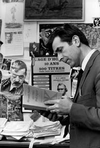 Vladimir Dimitrijević